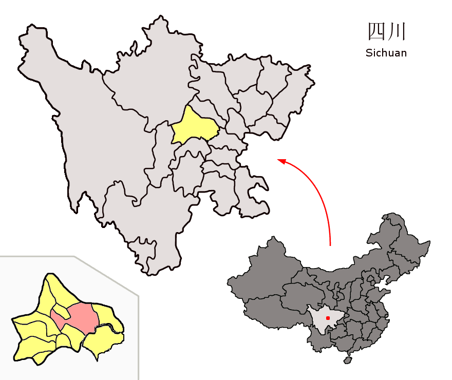 Location of Chengdu City Districts (pink) and Chengdu Prefecture (yellow) — within Sichuan Province of southwestern China. Map drawn in september 2007 using various sources, mainly : Sichuan province administrative regions GIS data: 1:1M, County level, 1990 Sichuan Counties map from